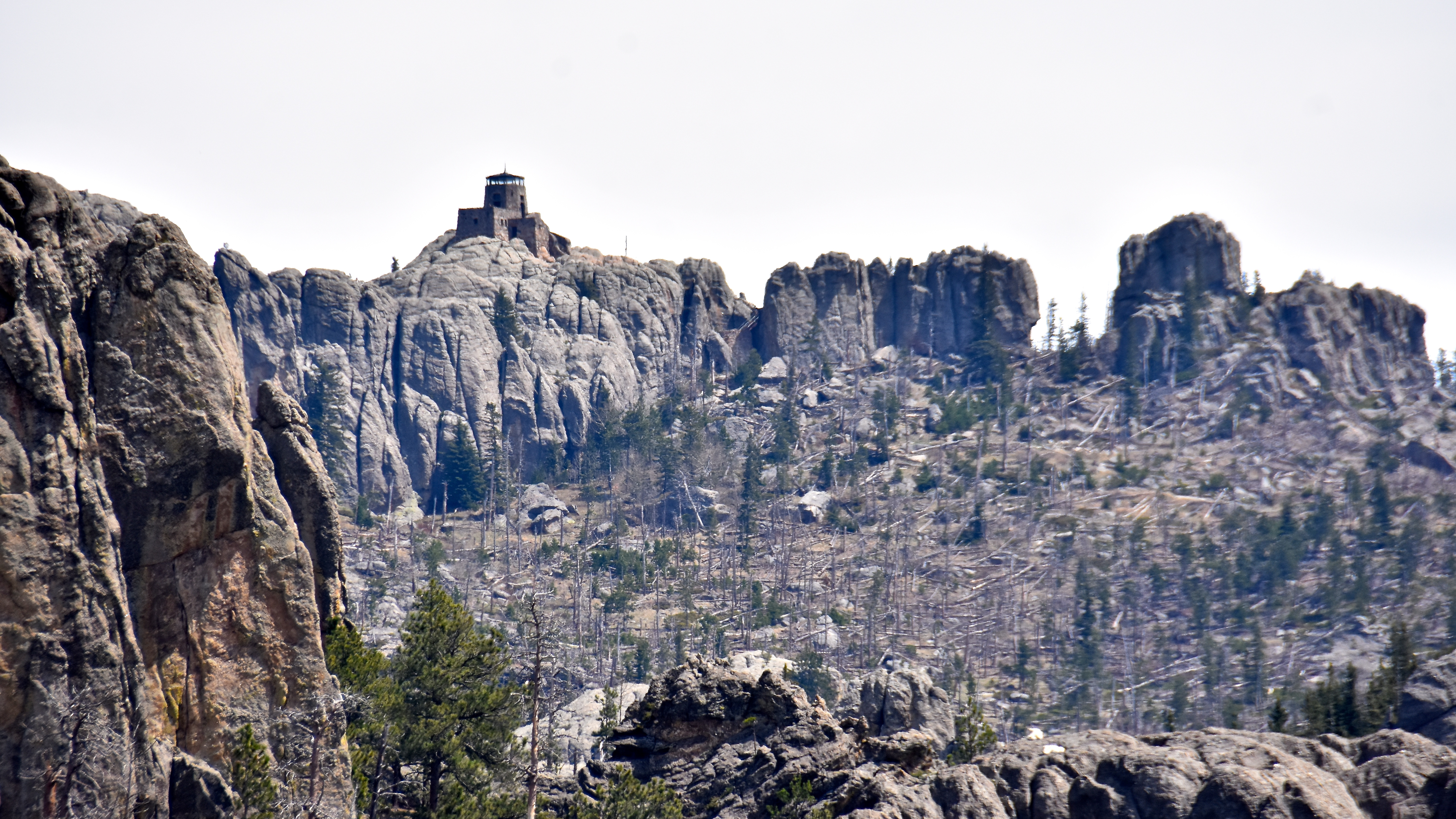 Black Elk Peak is the highest point in South Dakota. Note the fire tower at the summit.